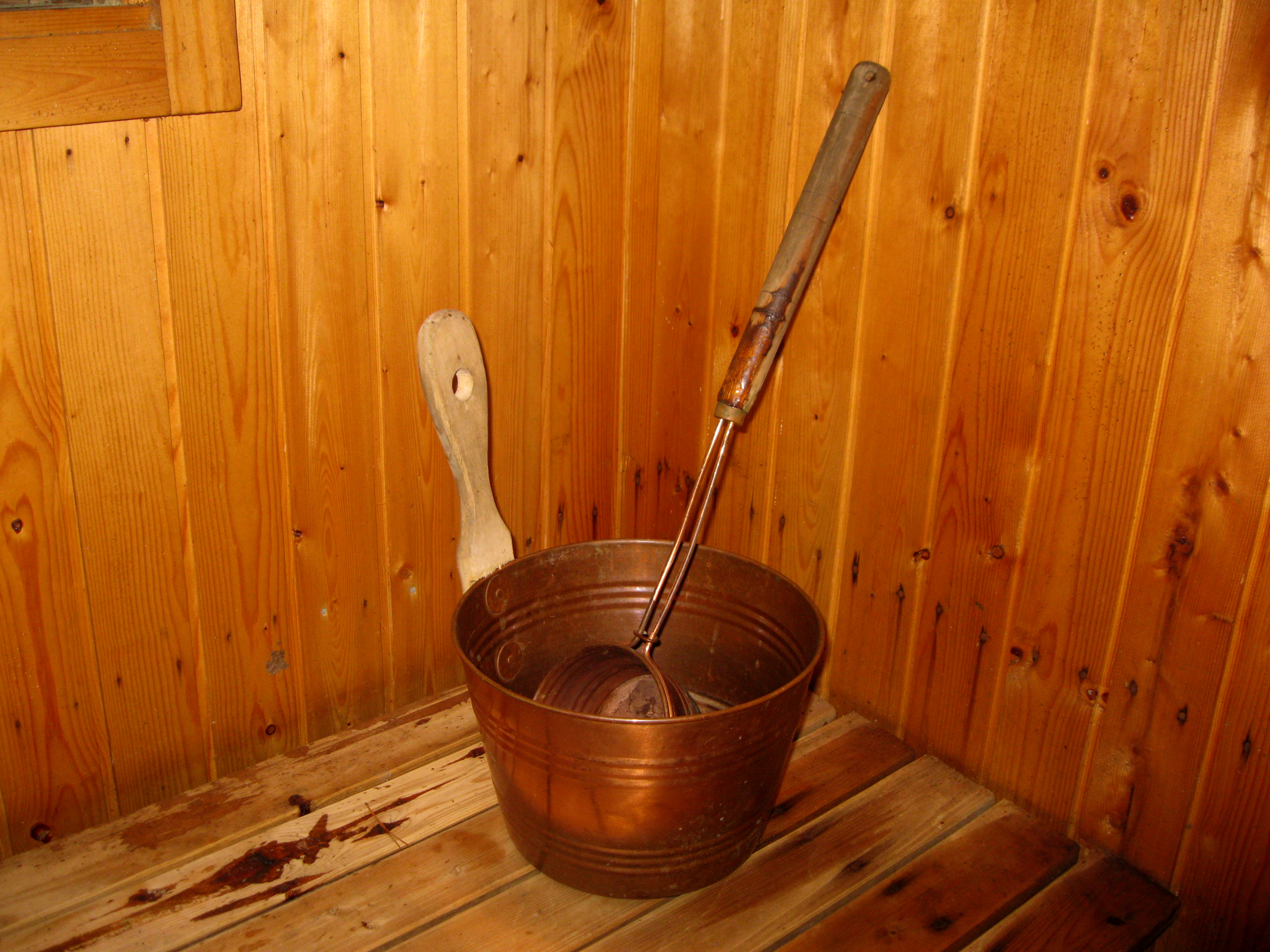 Sauna ladle and bucket.